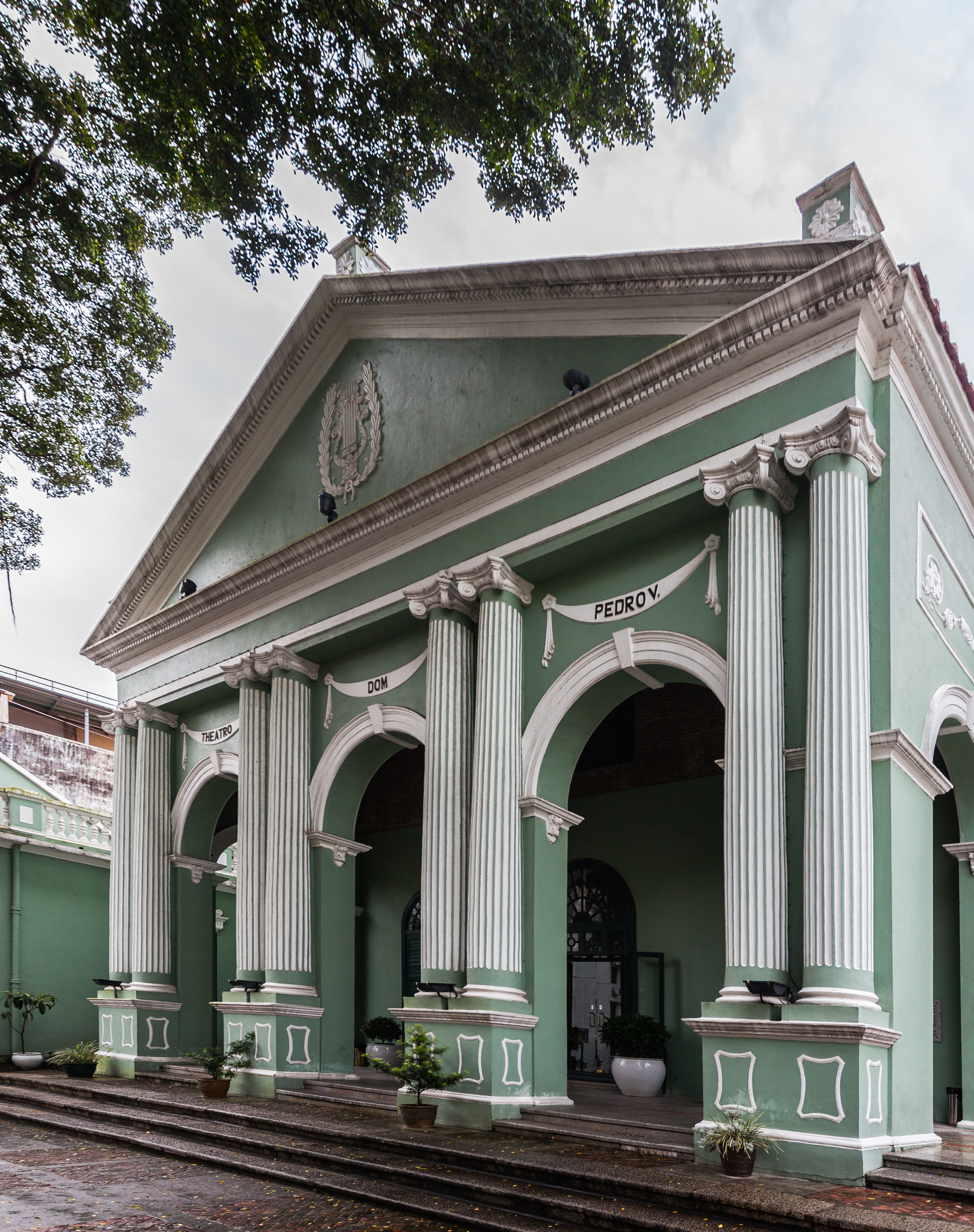 Dom Pedro V Theater, Macau